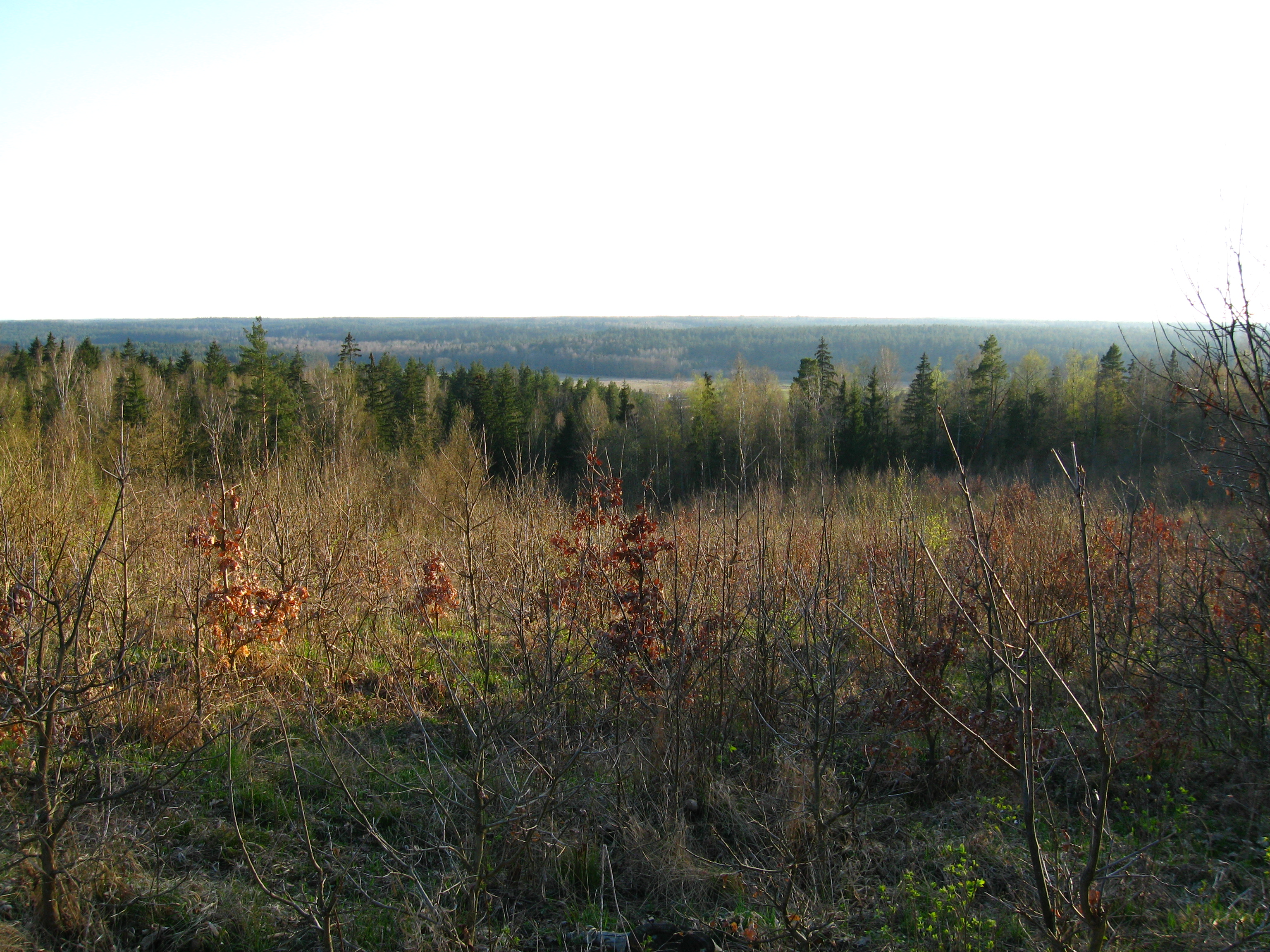 View from hill „Kopna Góra” at trail „Hills of st. John”.